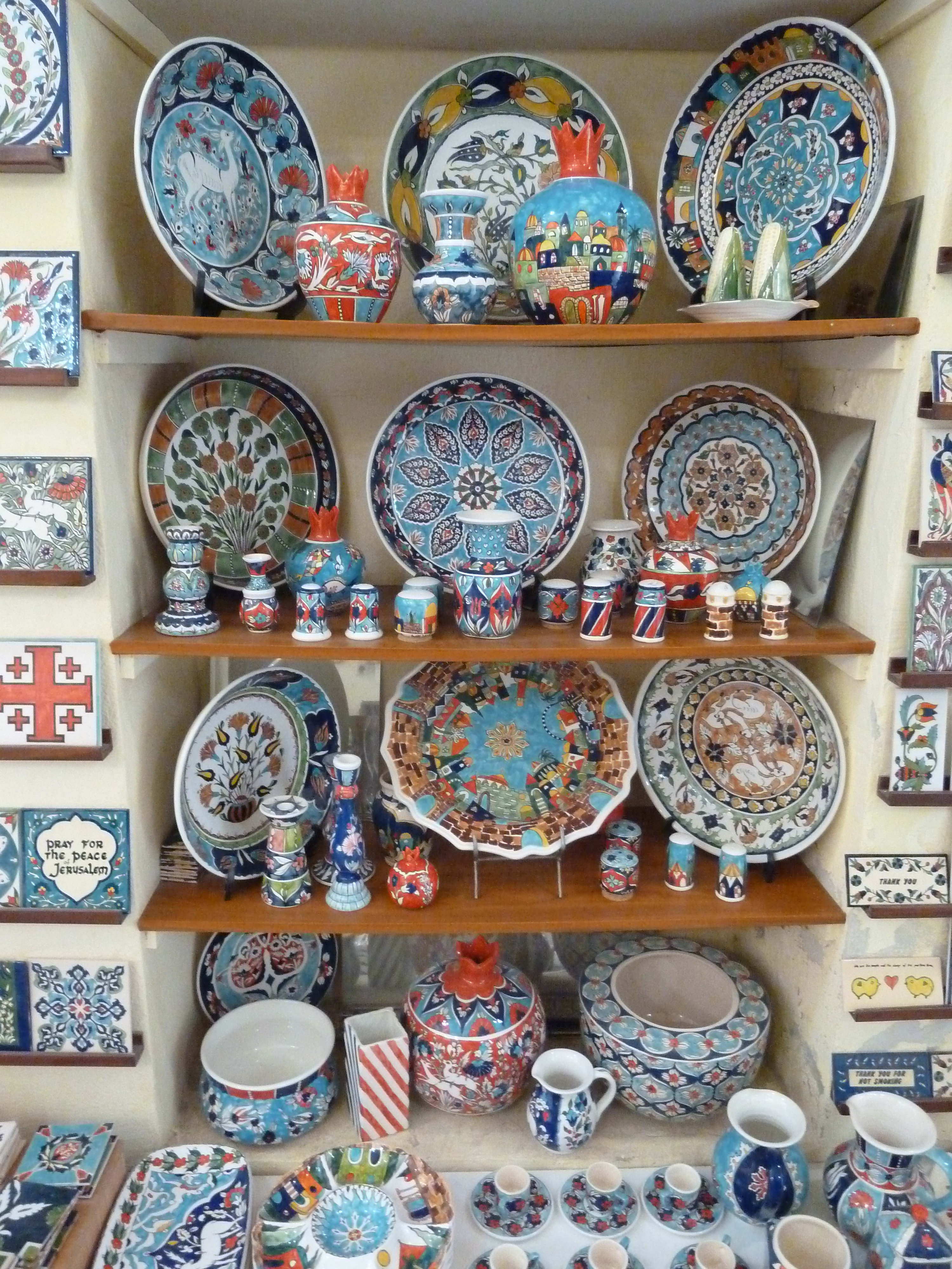 Sandrouni Armenian Ceramics, the Armenian Quarter, Jerusalem